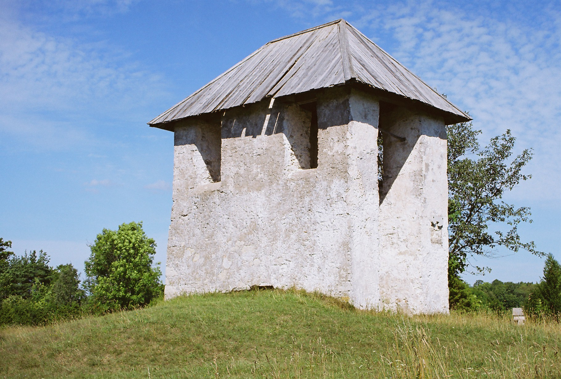 bell tower of Kihelkonna church